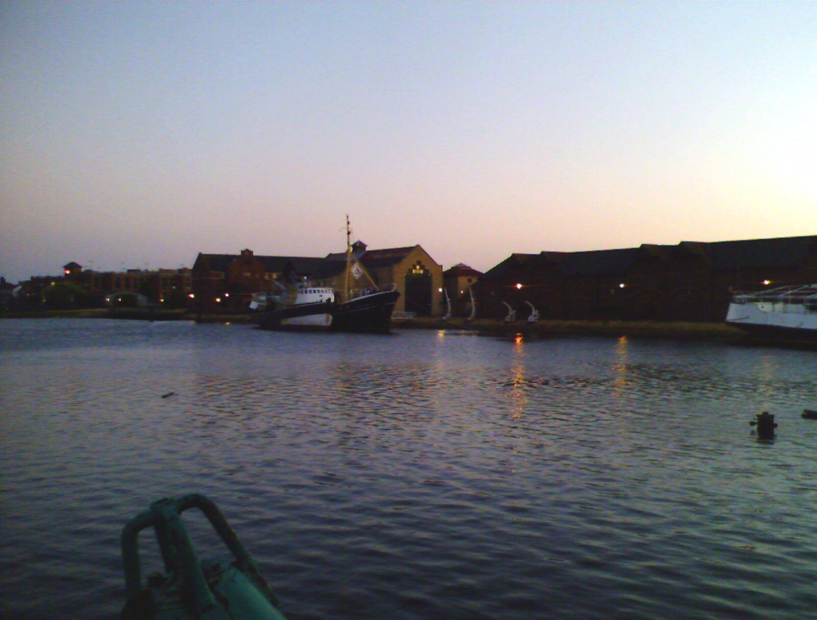 Alexandra Docks and National Fishing Heritage Museum, Grimsby. Photo by E Asterion u talking to me?